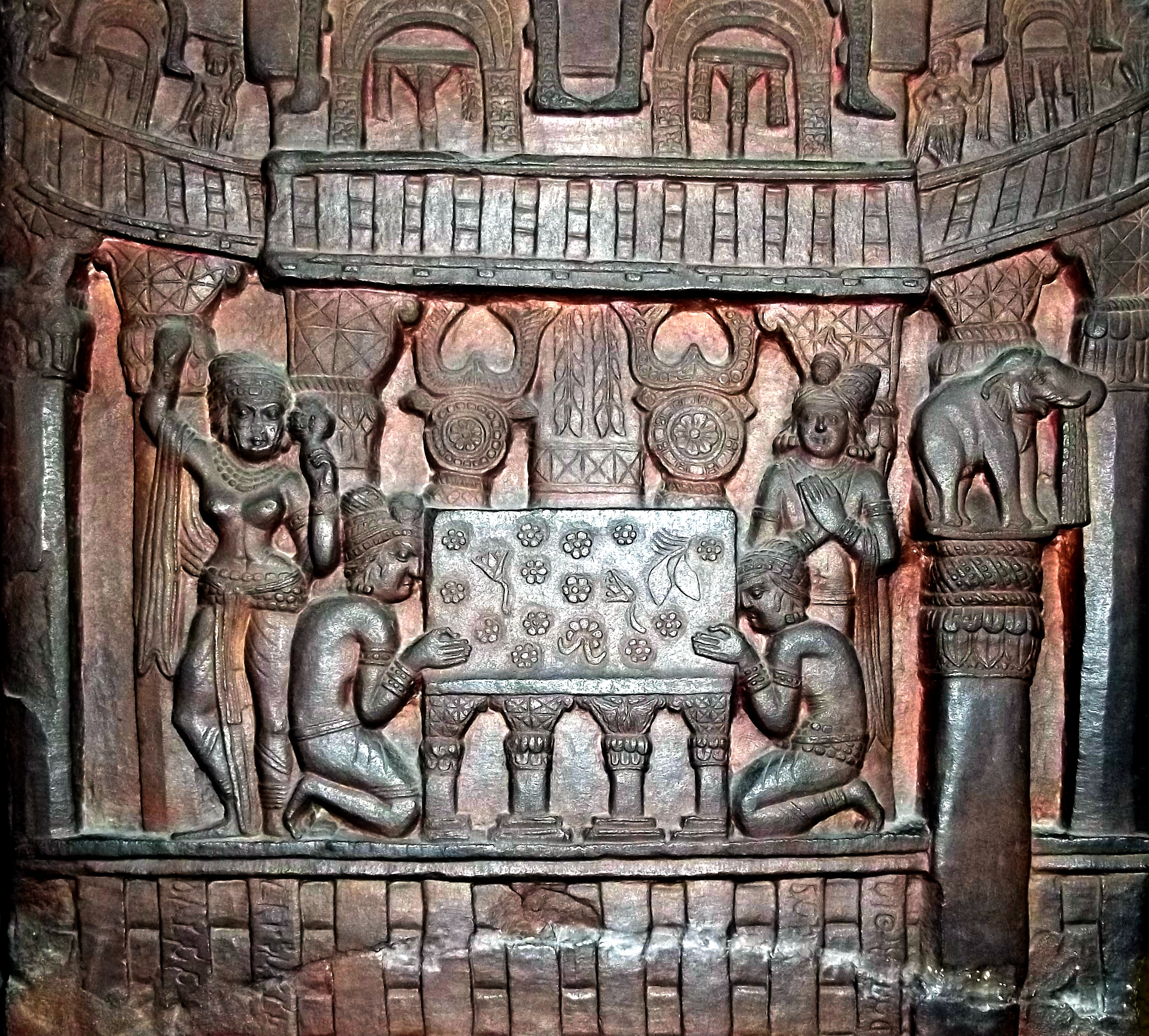 Bharhut Pasenadi Pillar, Outer Face Diamond Throne